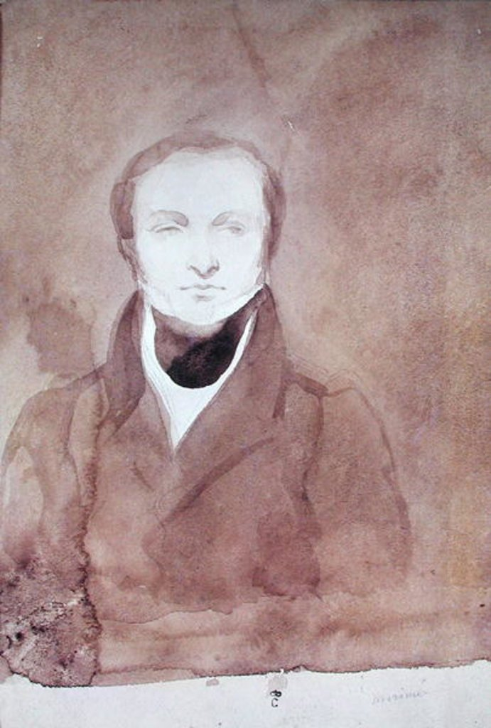 The portrait of Prosper Merimee